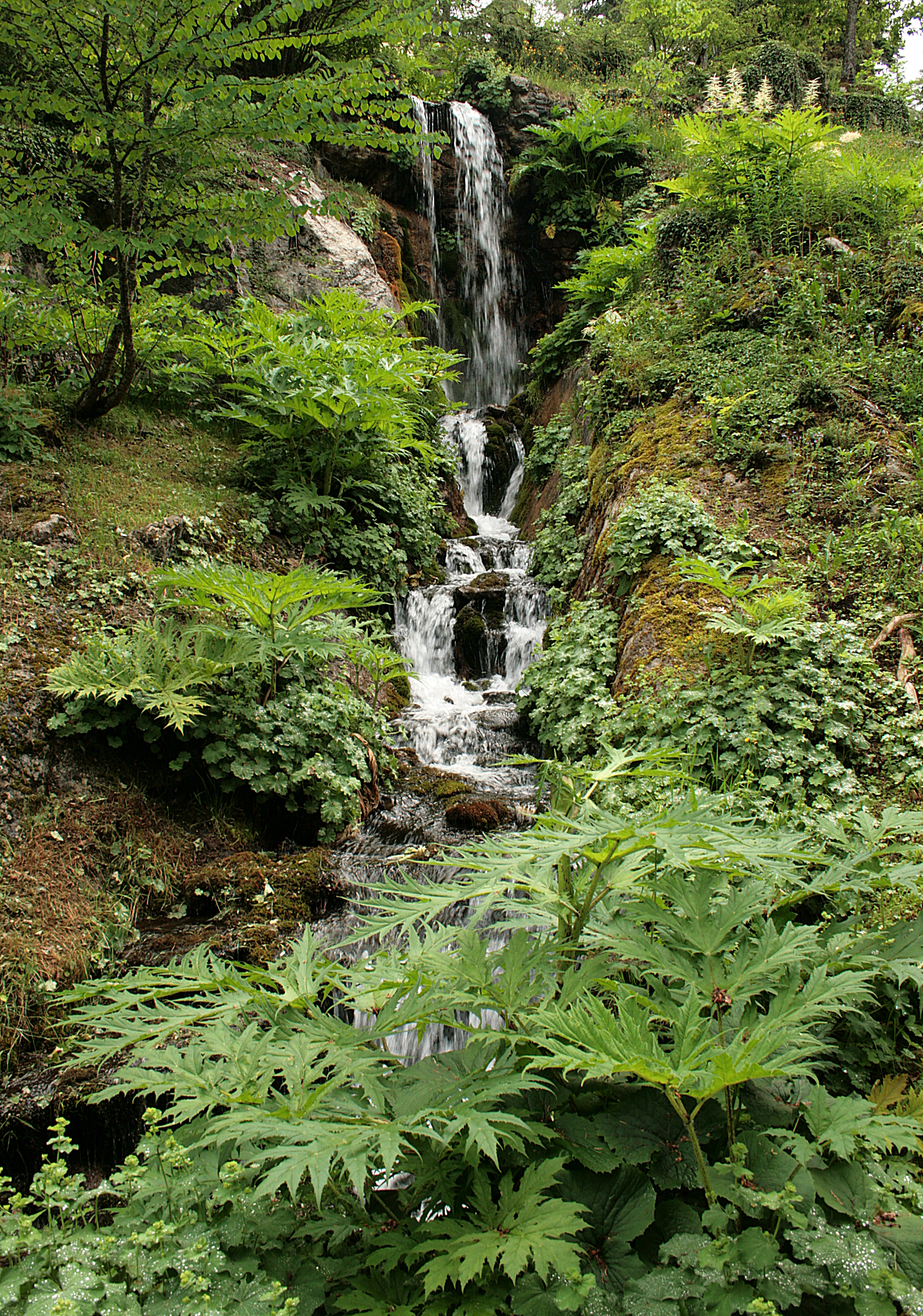 Giant hogweed